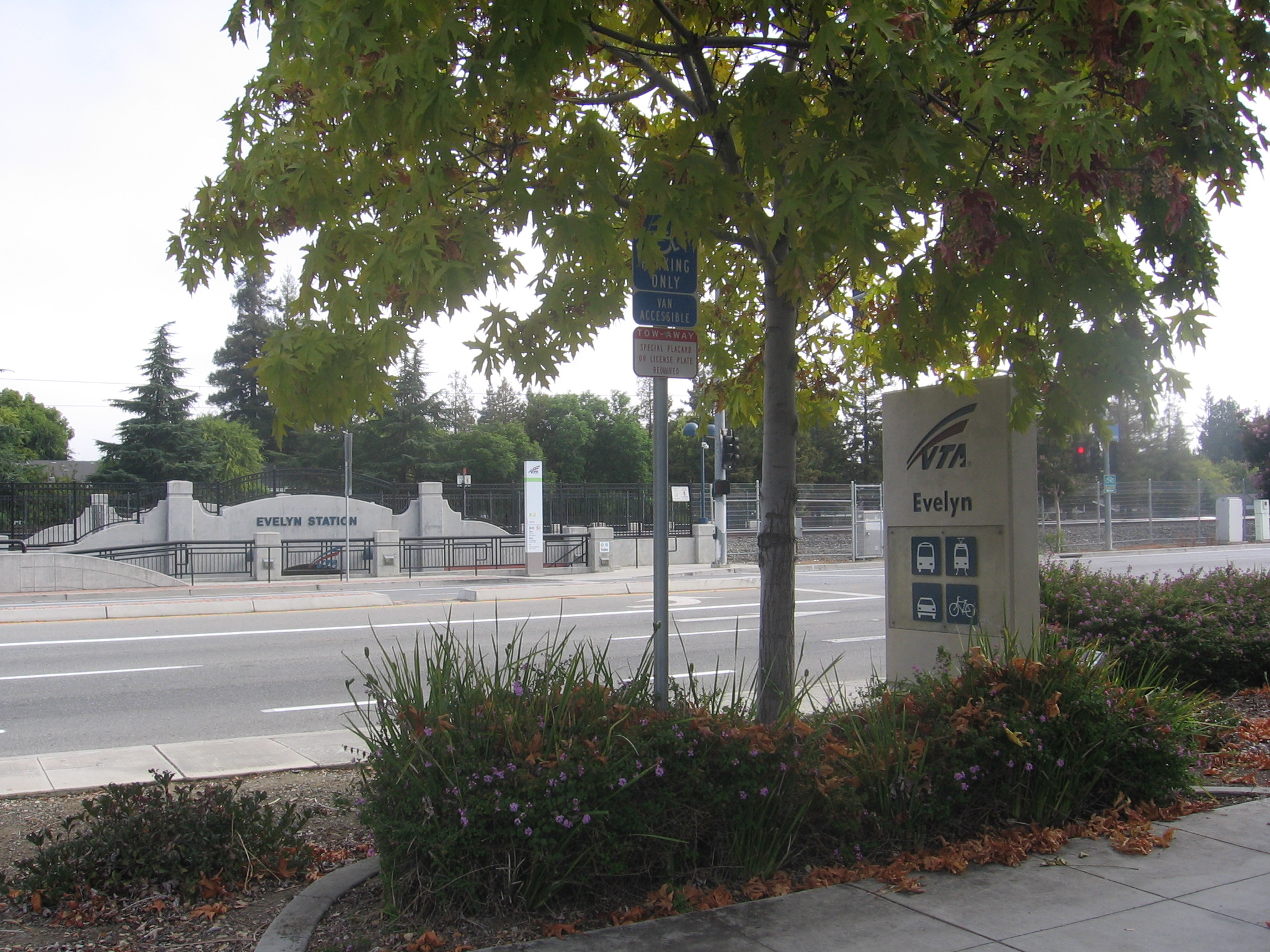 The Evelyn (VTA) light rail station in Mountain View, California, USA.